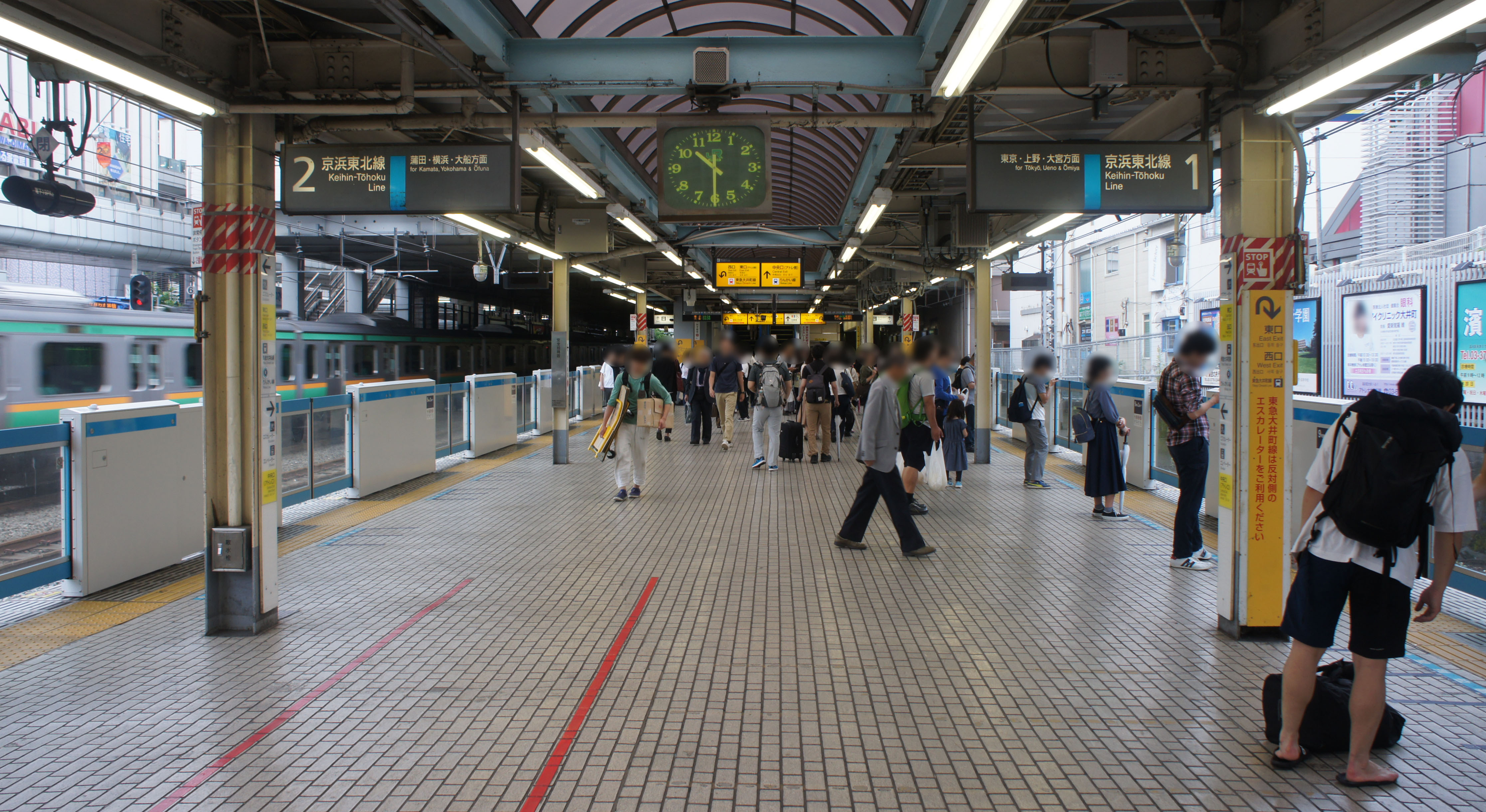 Platform of JR Oimachi Station